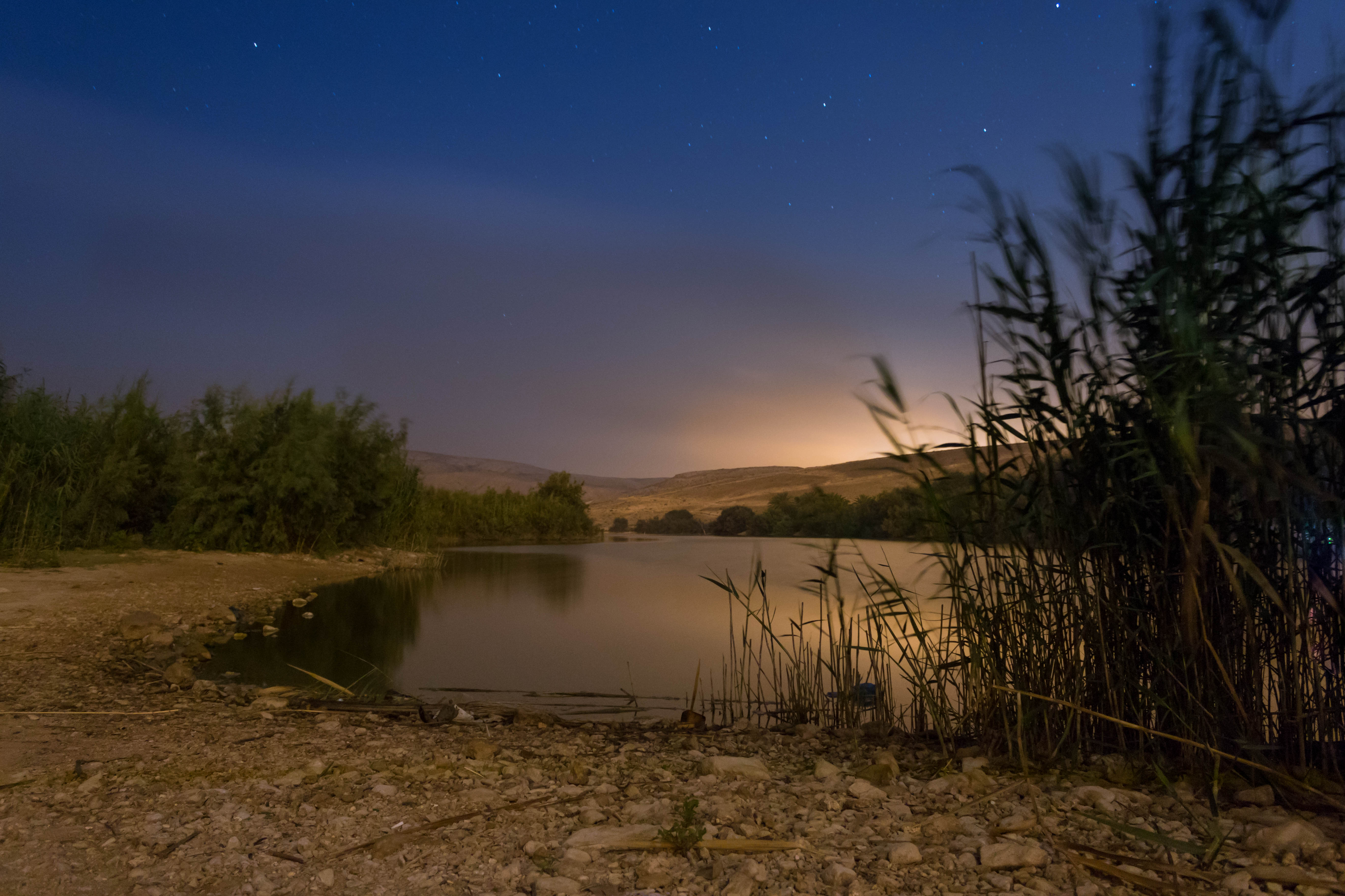 Yeruham lake at night